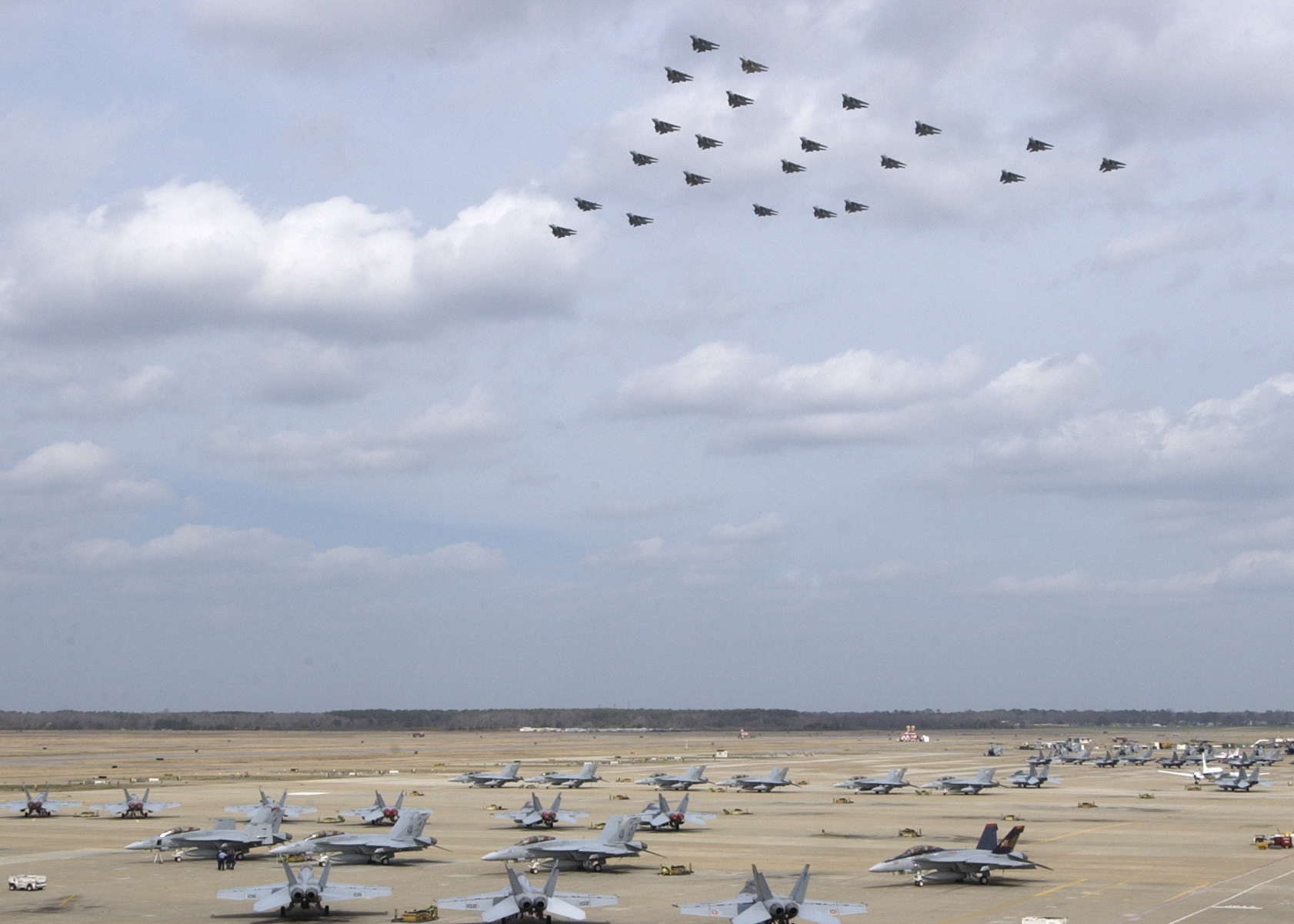 Virginia Beach, Va. (March 10, 2006) – F-14D Tomcats from Fighter Squadron Two One Three (VF-213) and VF-31 conduct a flyover of Naval Air Station Oceana airfield. VF-213 and VF-31 are completing their final deployment flying the F-14 Tomcat. For the past 30 years, the F-14 Tomcat has assured U.S. air superiority, playing a key role in ensuring victory and preserving peace around the world. The F-14 Tomcat will be removed from service and officially stricken from the inventory in September of 2006. U.S. Navy photo by Photographer's Mate 3rd Class Christopher J. Garcia (RELEASED)